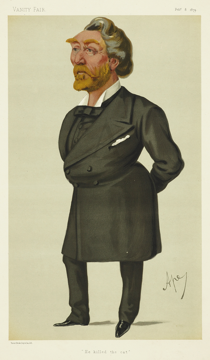 Caricature of Mr AJ Otway MP. Caption read "He killed the cat".